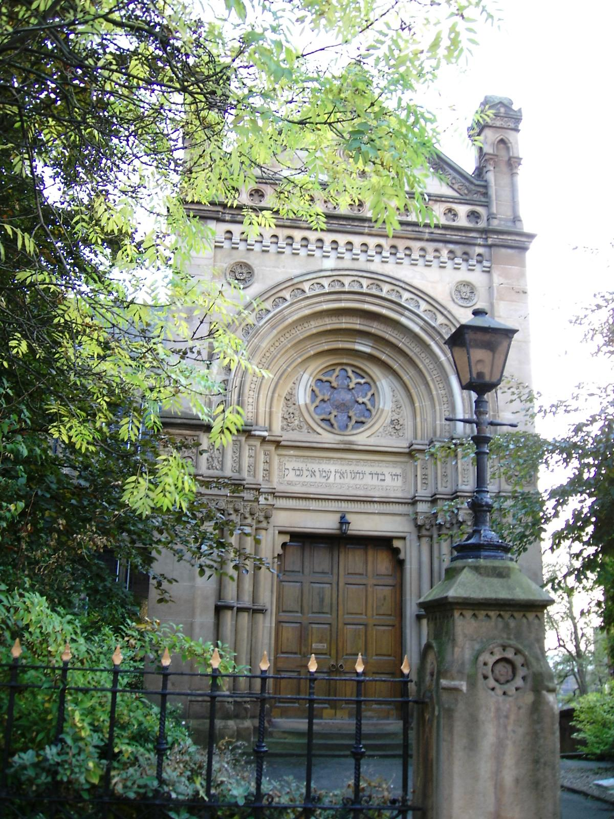 Garnethill Synagogue (the first synagogue in Scotland), Garnethill, Glasgow, Scotland. Made by User:Twid on 16 October 2005.